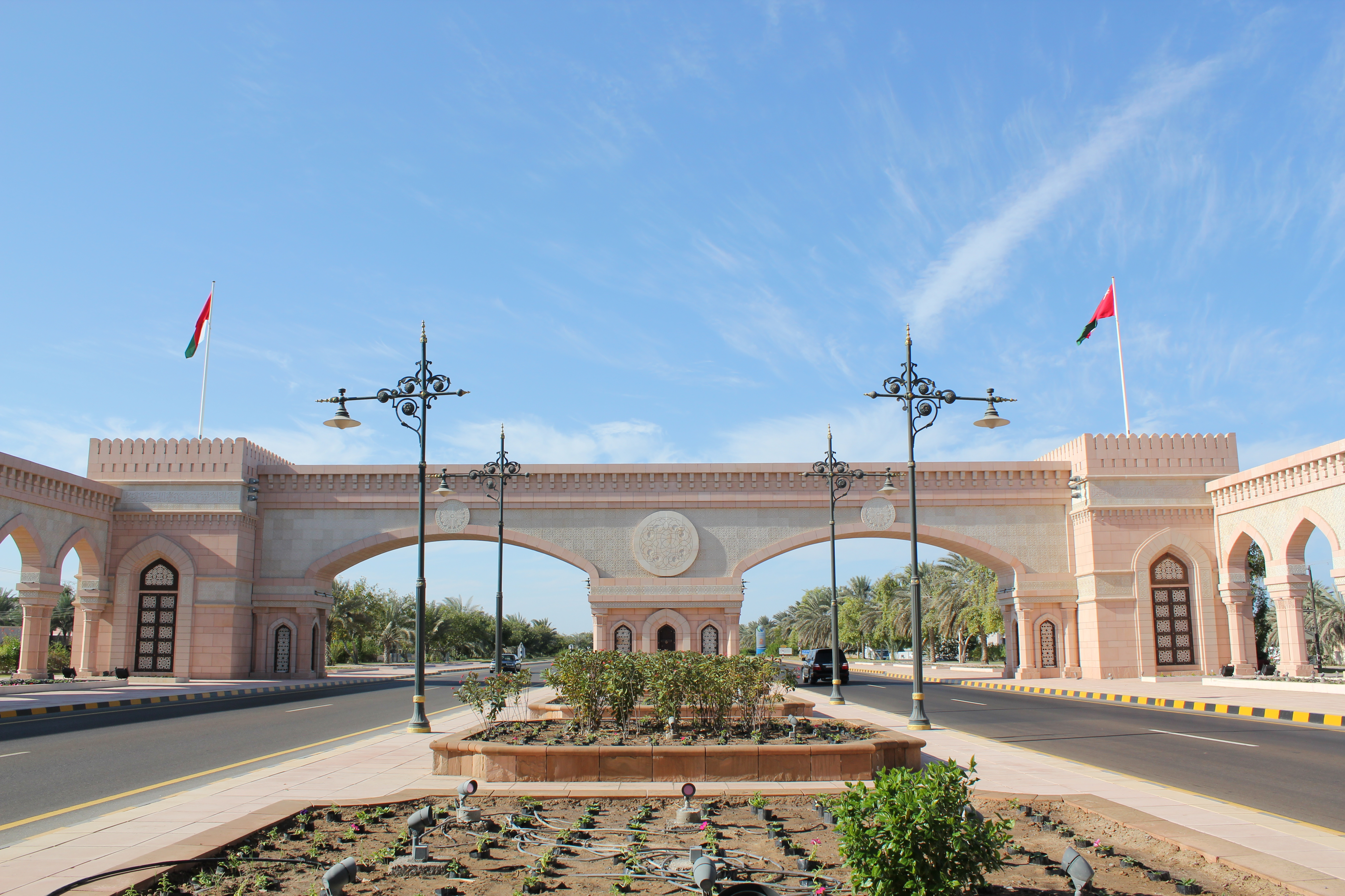 Sohar, Oman.